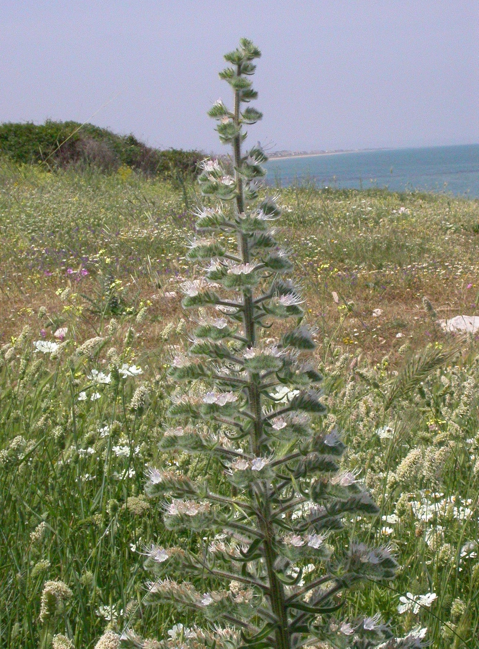 Inflorescence of Echium italicum subsp. italicum, Monte Gargano, Italy